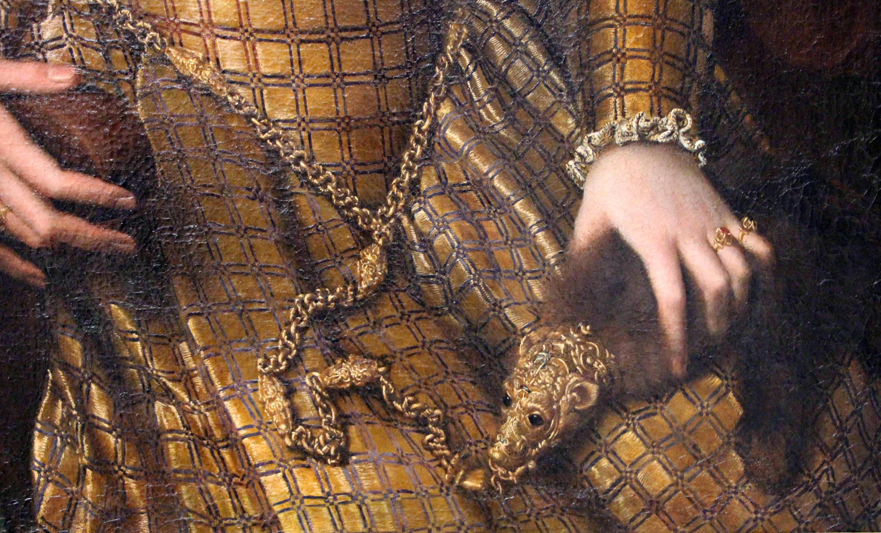 Italian Renaissance paintings in the Gemäldegalerie, Berlin